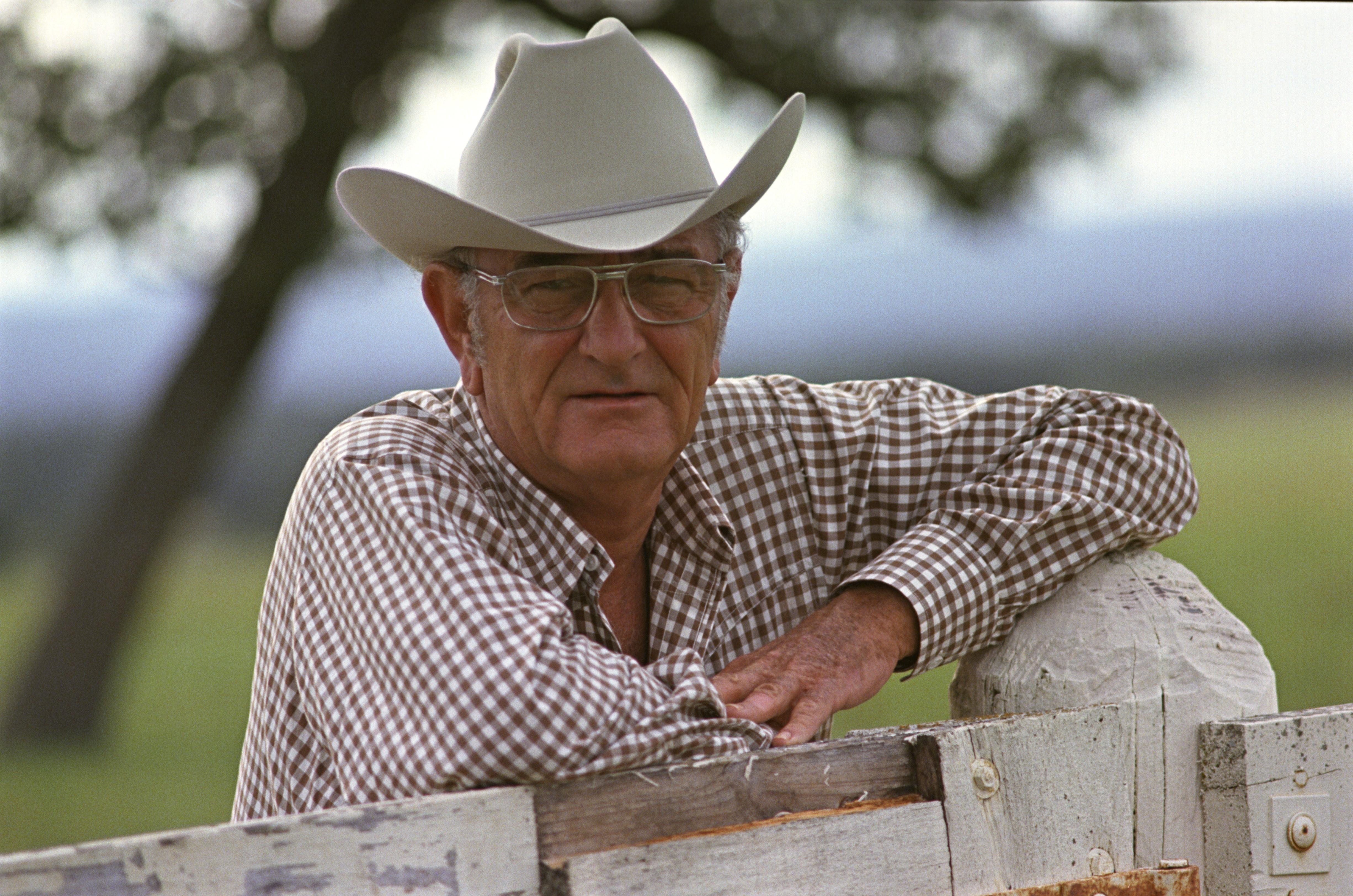 Lyndon B. Johnson at his ranch in September 1972